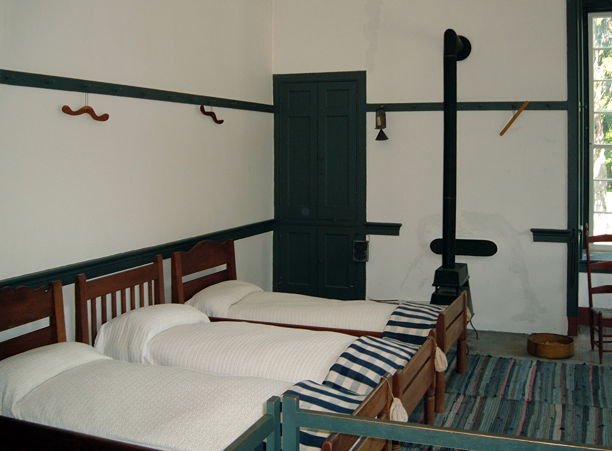 Photograph of bedroom in the Centre Family Dwelling of Shaker Village at Pleasant Hill, Kentucky, USA